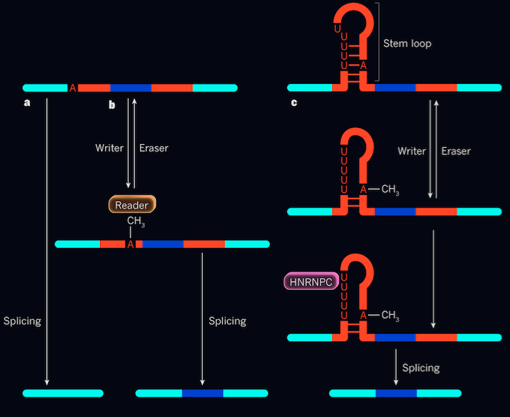 Exons of the mRNA are shown in blue and introns (non-coding sequence) are in red. a) Alternative splicing involves the removal of introns from the transcript. b) Adenine is methylated to form m6A modification. c) m6A forms a uridine rich RNA stem loop near where the m6A modification was made. HNRNPC protein binds to the uridine rich region on the loop leading to the excision of intron.